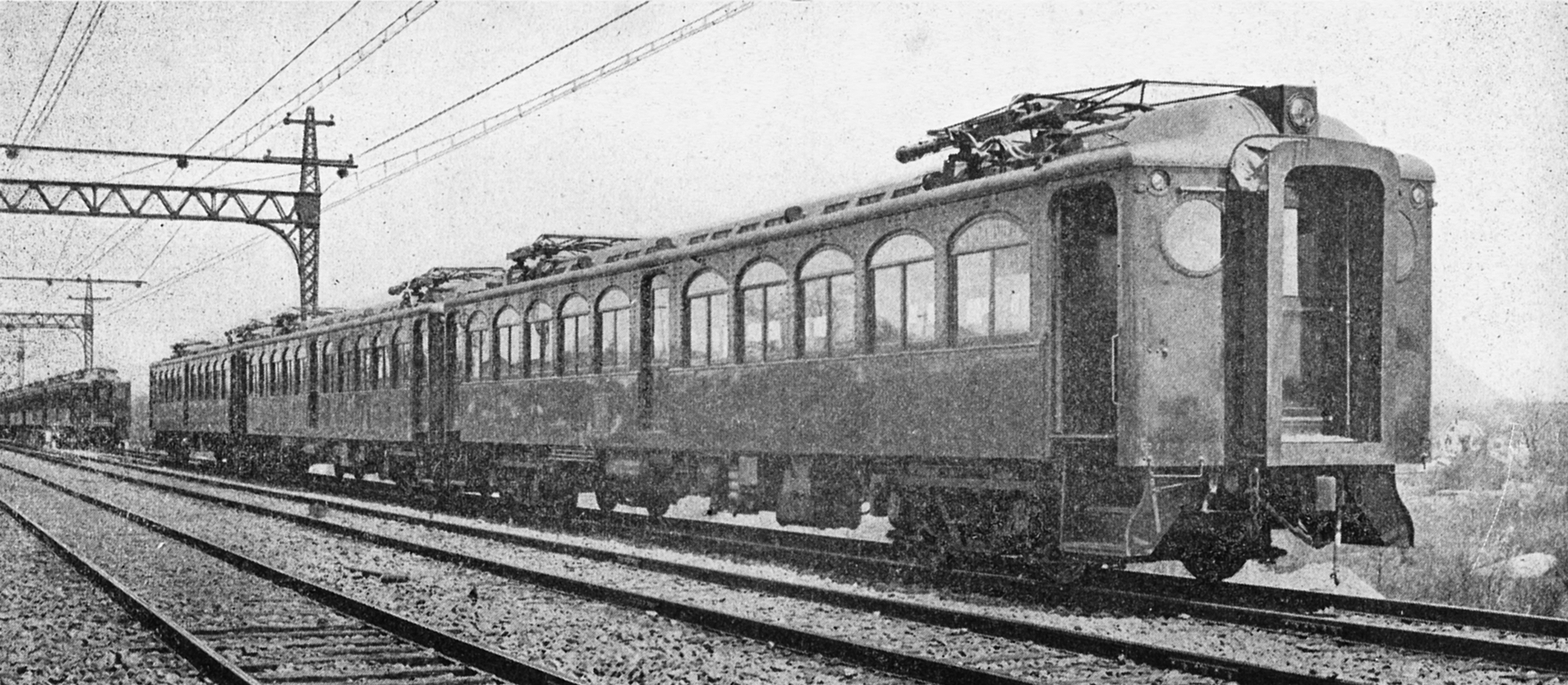 Electric multiple units of the New York, Westchester and Boston Railway.